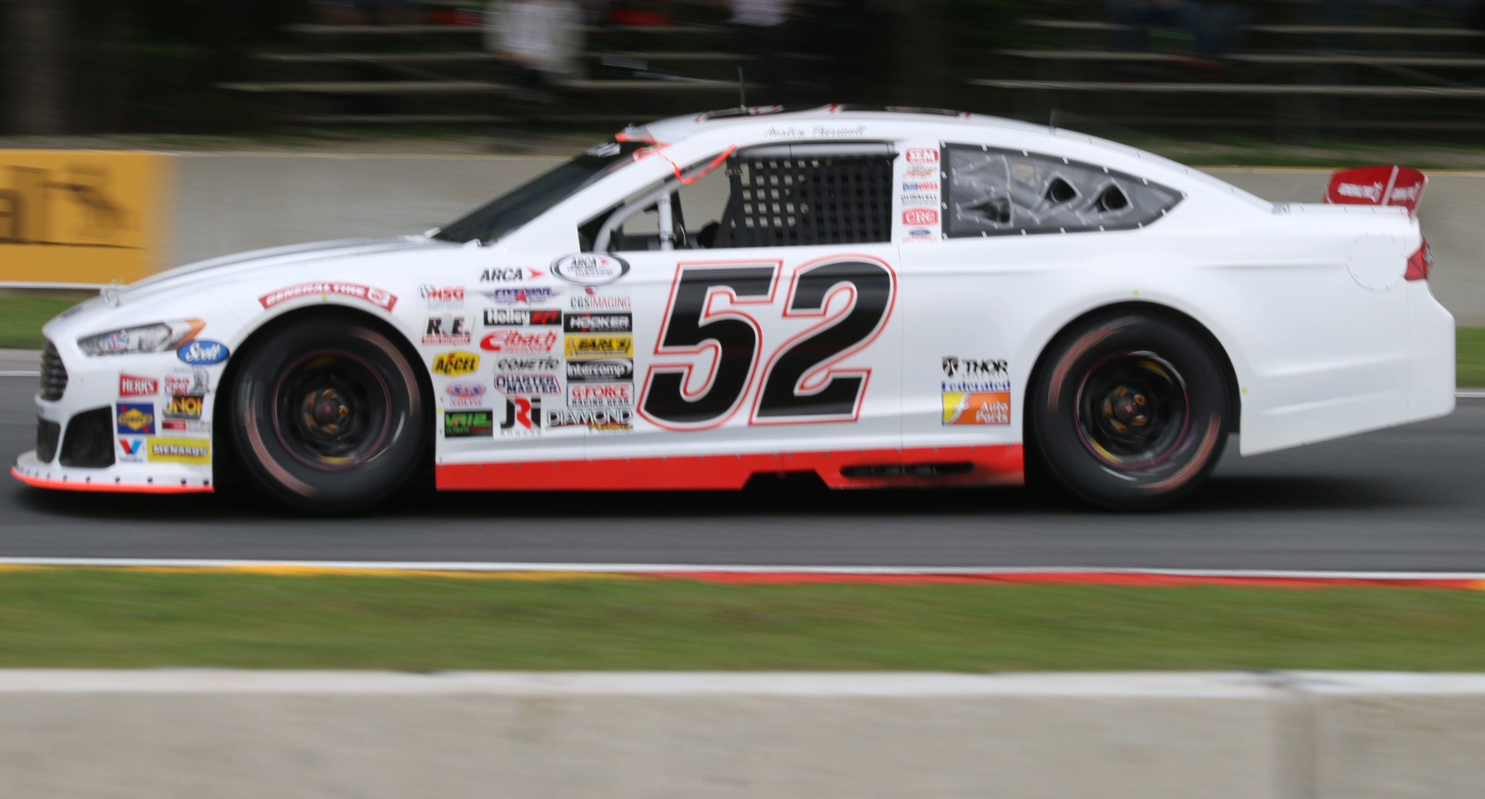 The ARCA Racing Series car of Austin Theriault at the 2017 Road America 100 race.